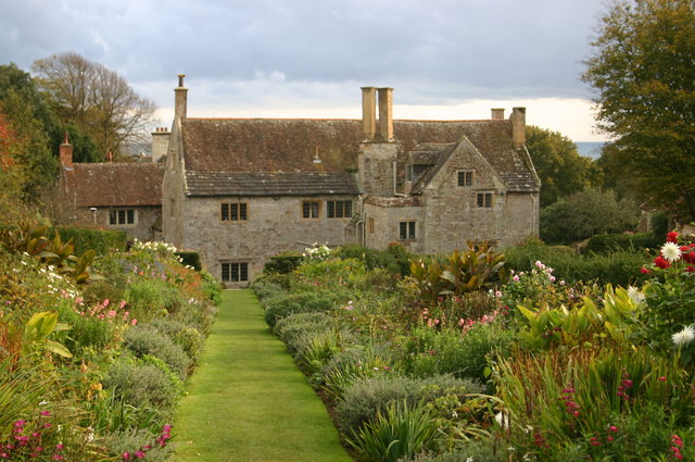 Mottistone Manor Mottistone Manor and the National Trust Gardens